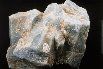 Beryl